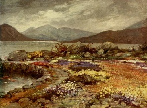 John Stirling-Maxwell's garden at Corrour Lodge, Inverness-shire, Scotland. Book illustration, facing page 100